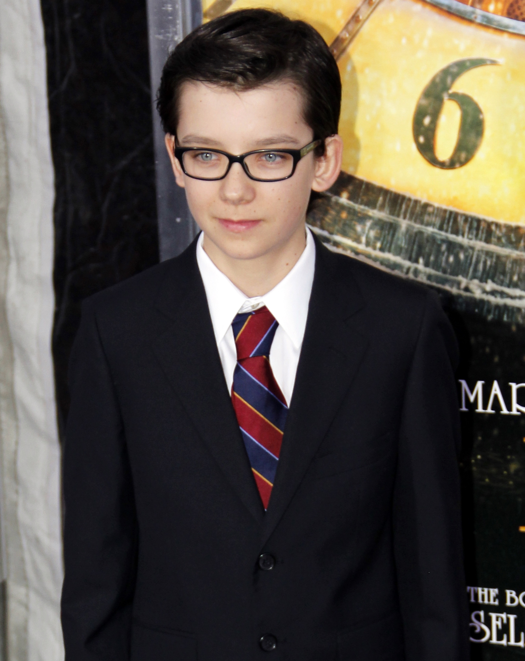 Asa Butterfield at the Hugo Premiere, New York City 2011.